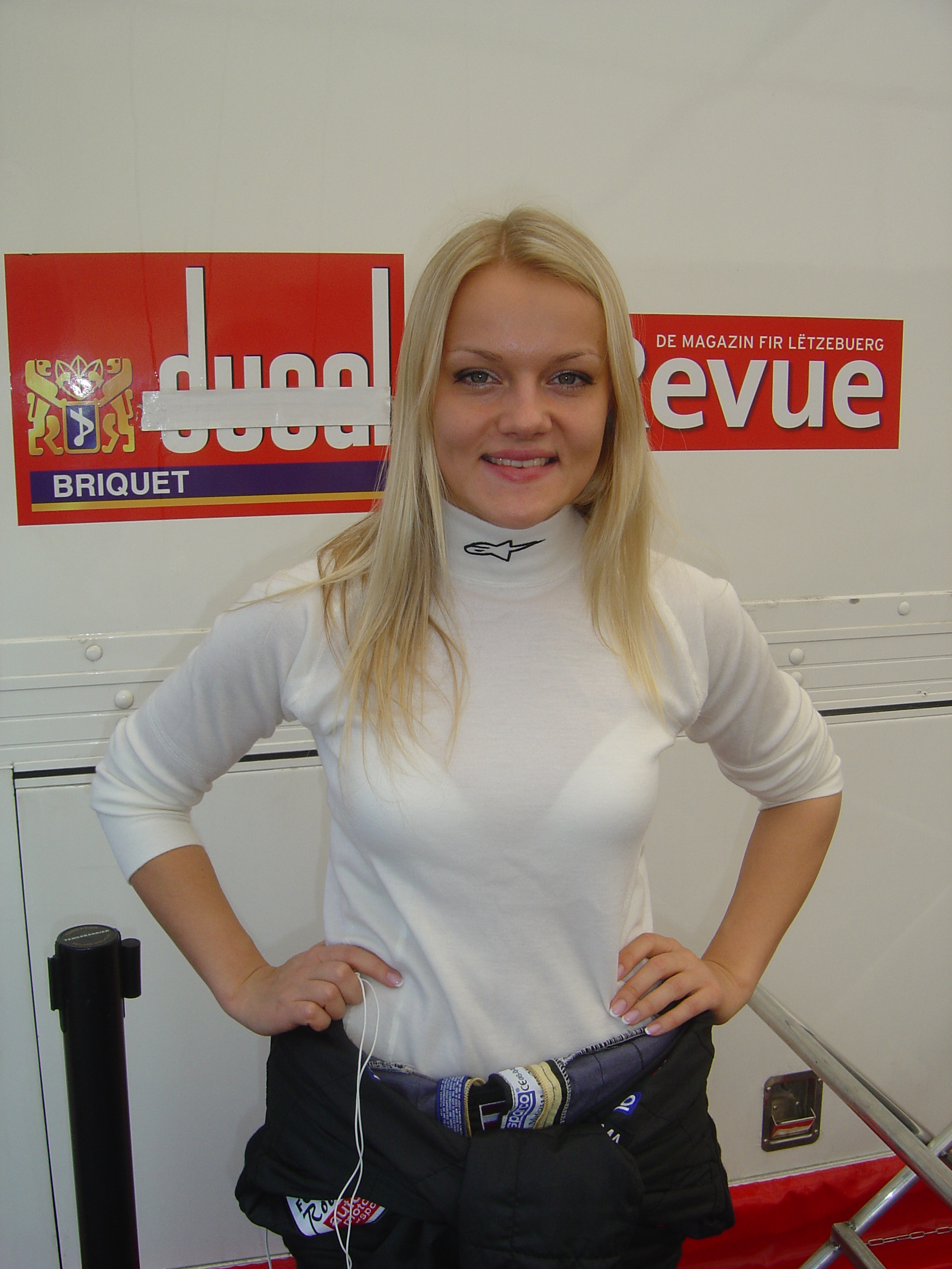 Karlīne Štāla: the photo was taken during 2008's Jim Clark Revival at Hockenheim